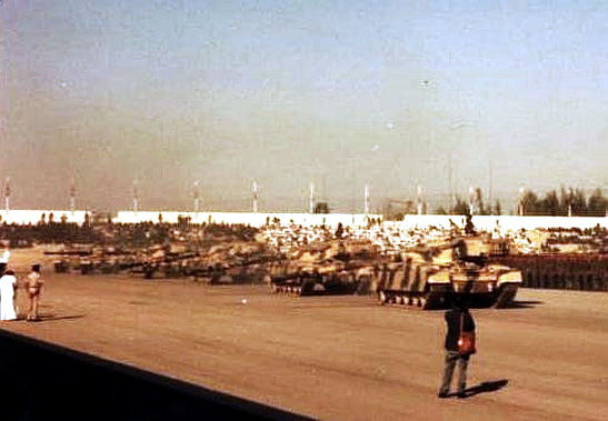 The mechanised element is led by Chieftain Main Battle Tanks of the Sultan's Armoured Regiment.